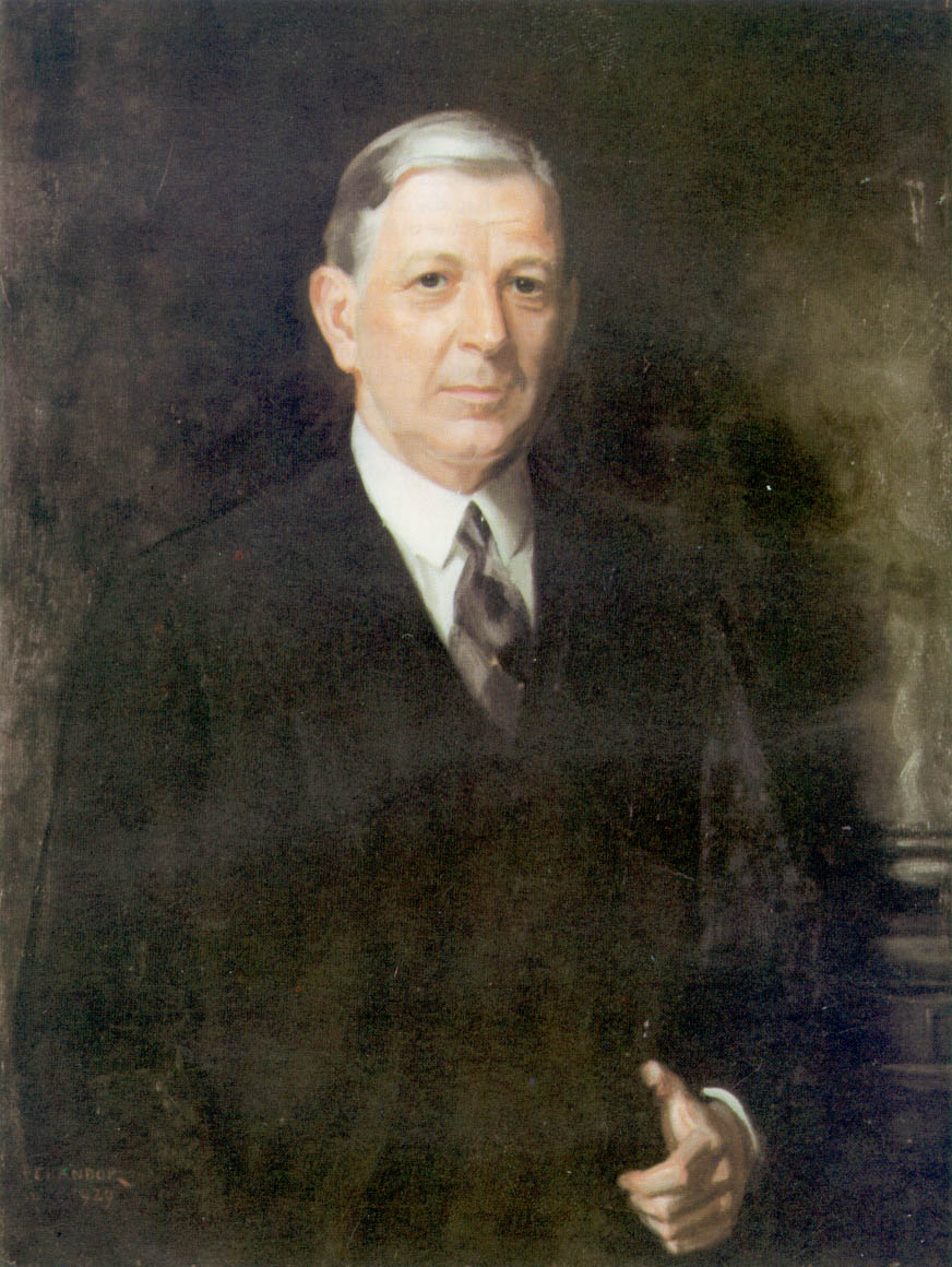 Dwight F. Davis, 49th United States Secretary of War. Oil on canvas, 35½" x 27½".